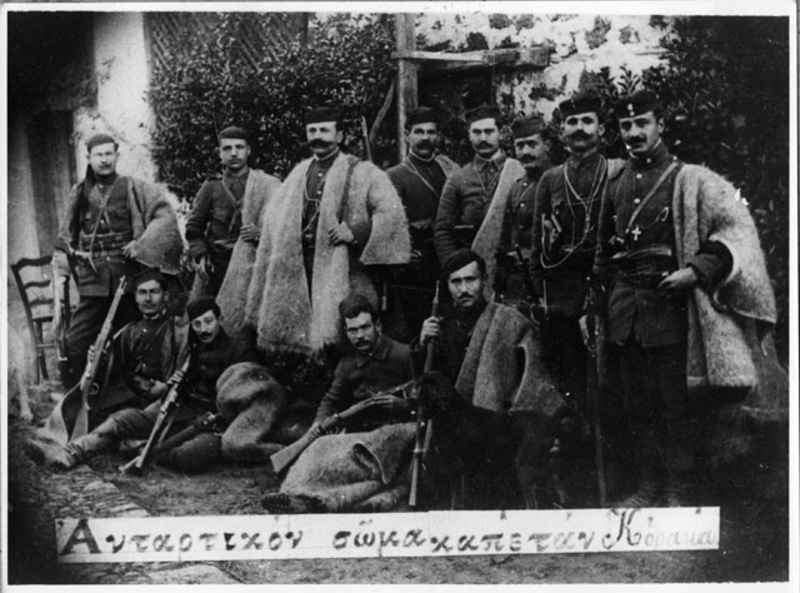 Vasilios Stavropulos cheta